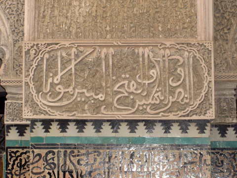 The text is written in Fesi script